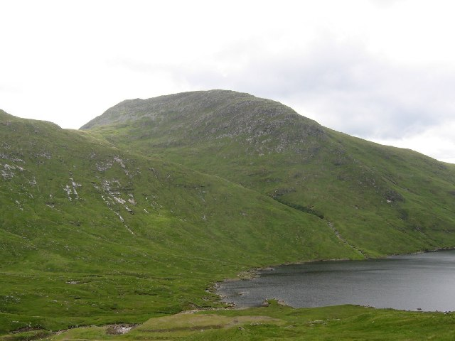 Coire Cruachan. The pumped storage loch backed by Beinn a'Bhuiridh, one of the many peaks of the Cruachan range.